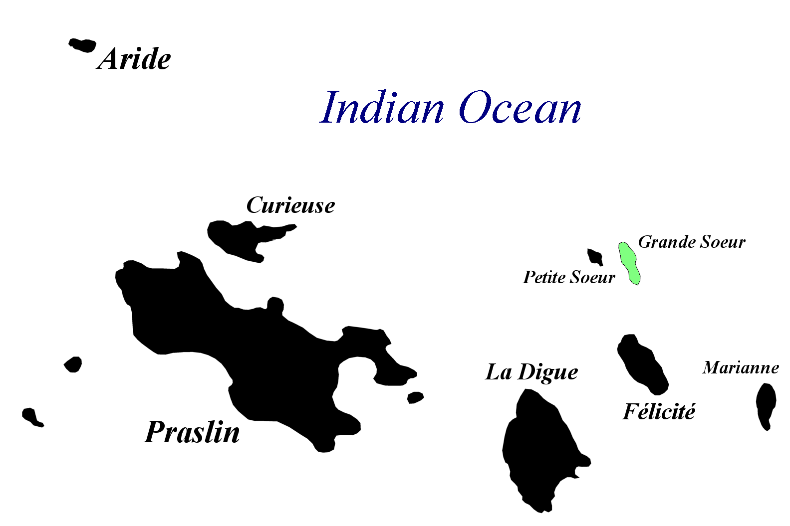 Map of the inner islands of the seychelles with the location of Grande Sœur